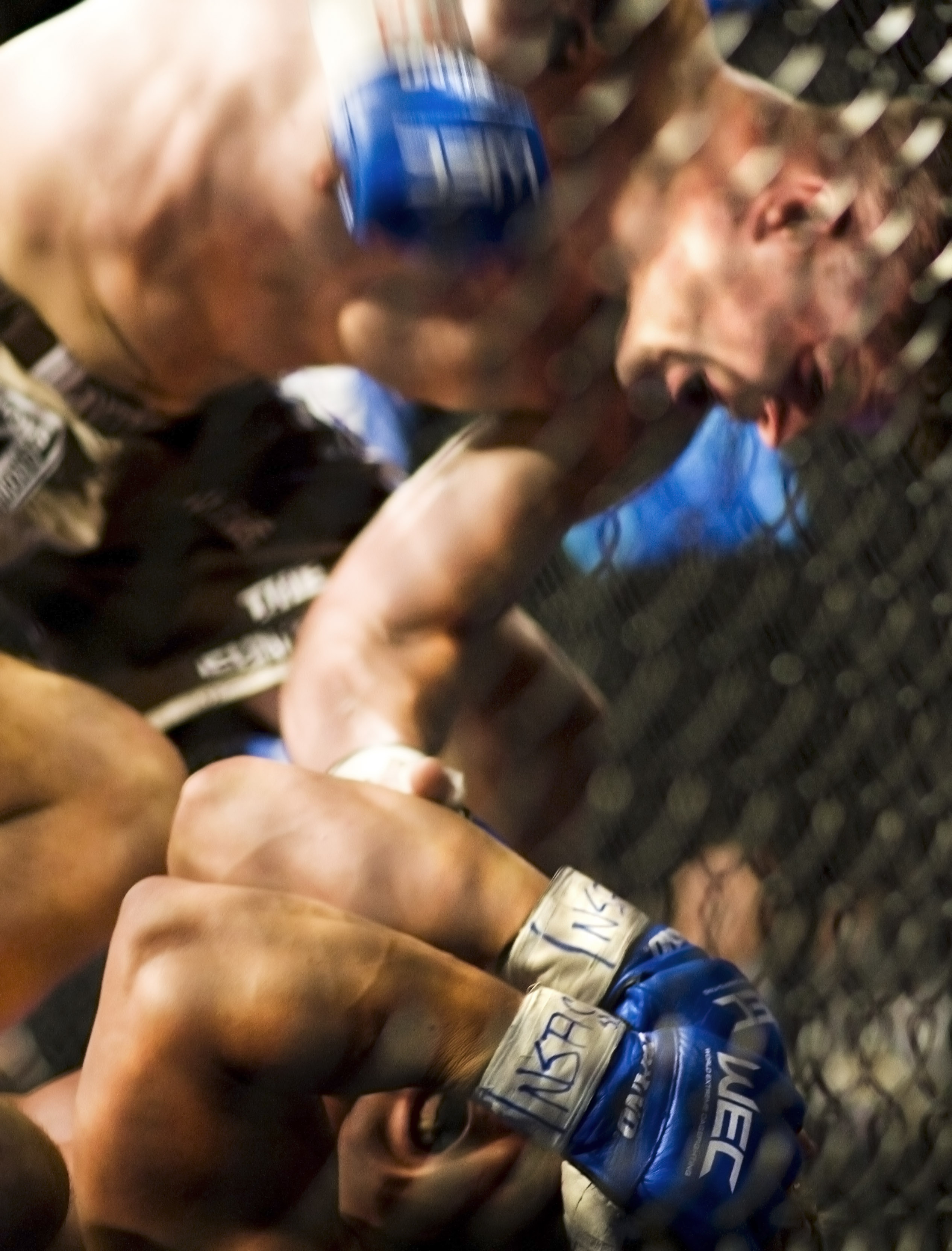 LAS VEGAS – Brian Stann gives the ole’ ground and pound to Jeremiah Billington during World Extreme Cagefighting 30 at Hard Rock Hotel and Casino. Stann, a Marine First Lieutenant, has a short but impressive mixed-martial arts career where he holds the WEC record for fastest knockout.